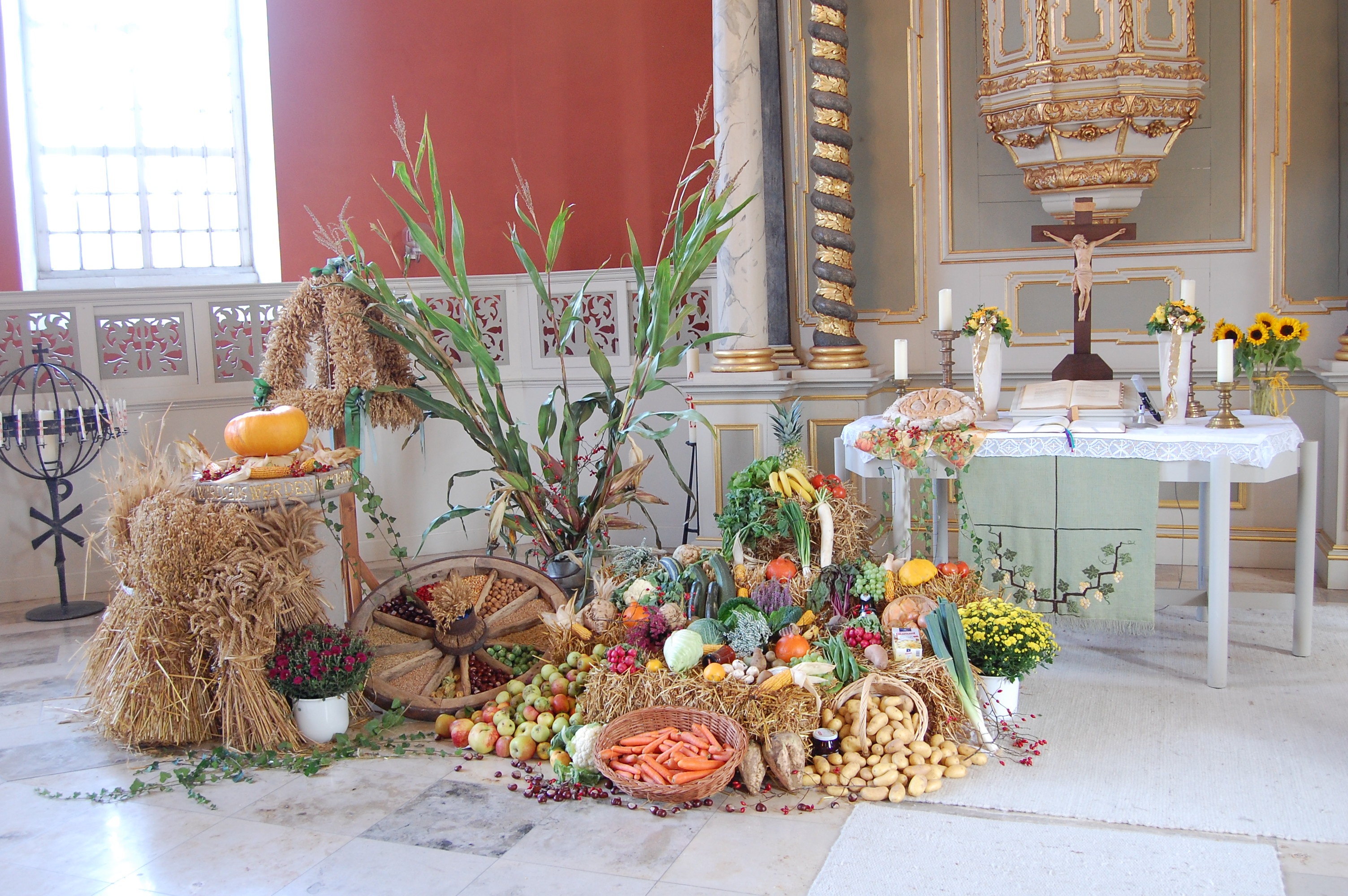 Thanksgiving decorations in front of the altar of St. Pancratius church in Barterode, Germany on October 5, 2014